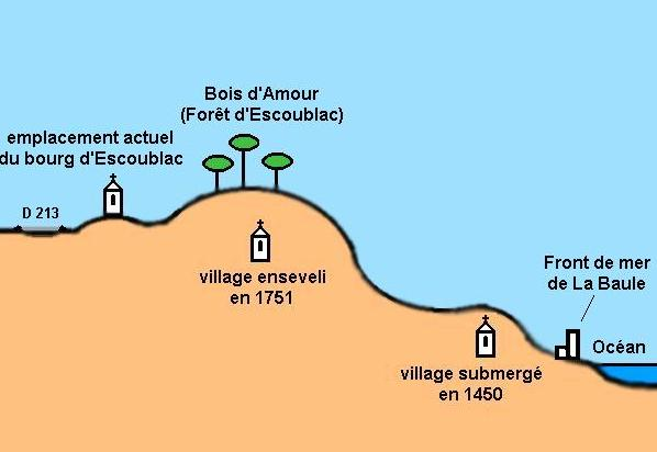 Escoublac (France) - village moves after 1450 (flooding) and 1751 (hurricane)